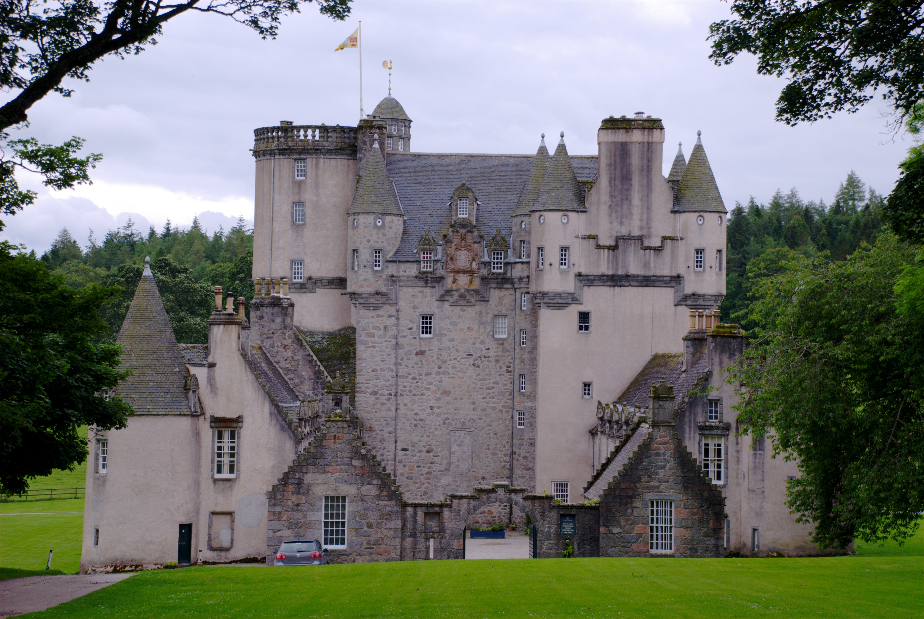 Castle Fraser, approaching from the carpark